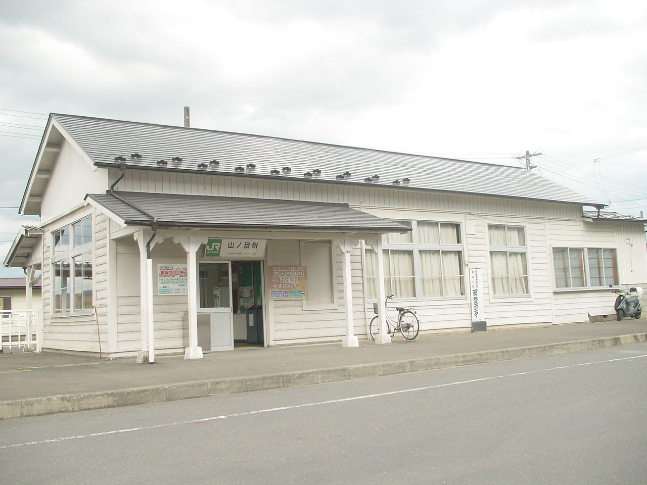 Yamanome Station, old building